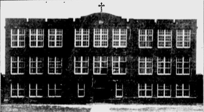 Bishop England's fourth school building at 203 Calhoun Street had 14 classrooms and was designed so that winds could be added later.